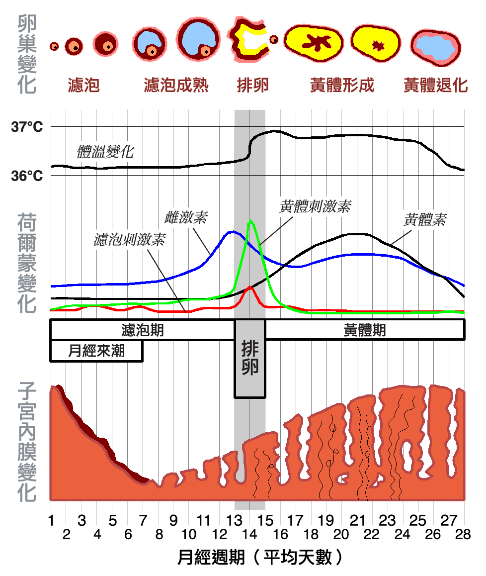 月經週期生理變化 / Translated from zh::commons:Image:MenstrualCycle.png, original image created by zh::en:User:Chris 73 (English Wikipedia), User:KaurJmeb modify to Chinese version.